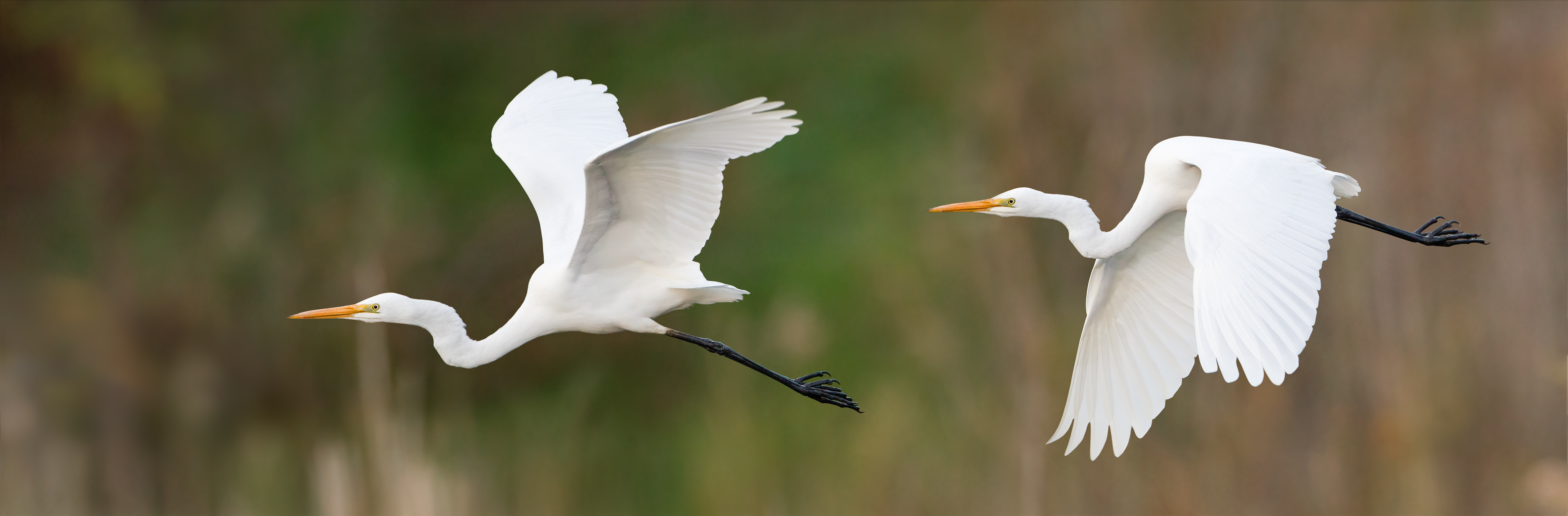 Two sequential frames of a single Eastern Great Egret (Ardea alba modesta), Gould's Lagoon, Tasmania, Australia